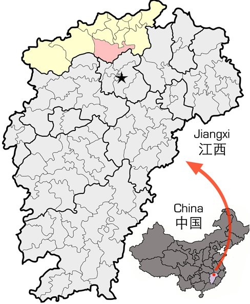 Map showing location of Yongxiu, Jiujiang in Jiangxi Province China